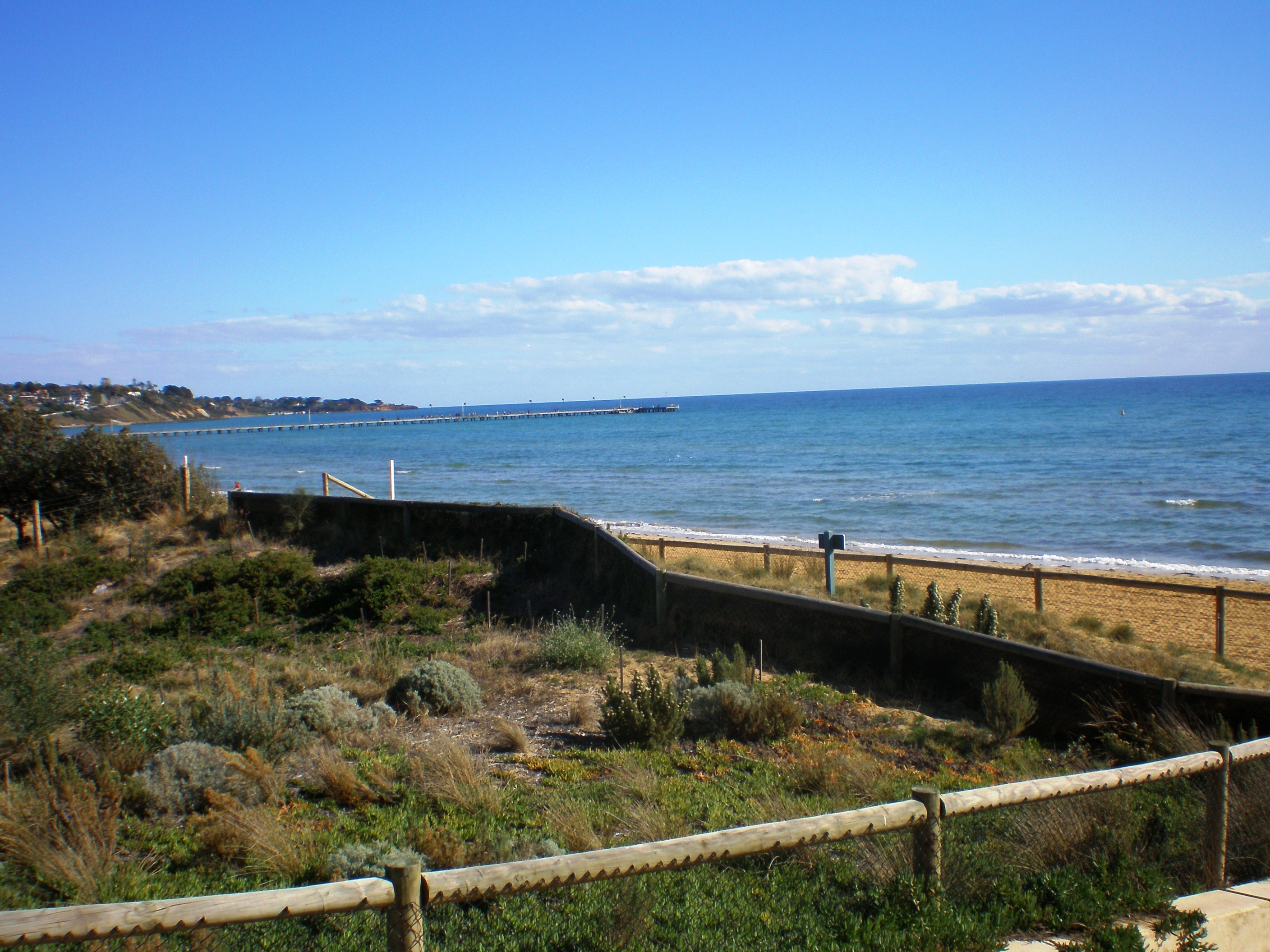 Frankston, Victoria beach and coastline facing south-east